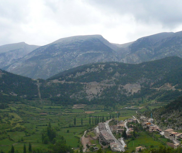 Vulturó, Serra del Cadí, as seen from Gósol (Berguedà, Catalonia)